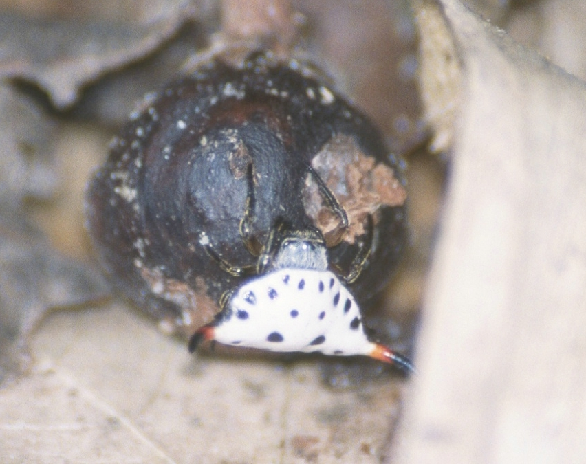 Togacantha nordviei. Species of spider.